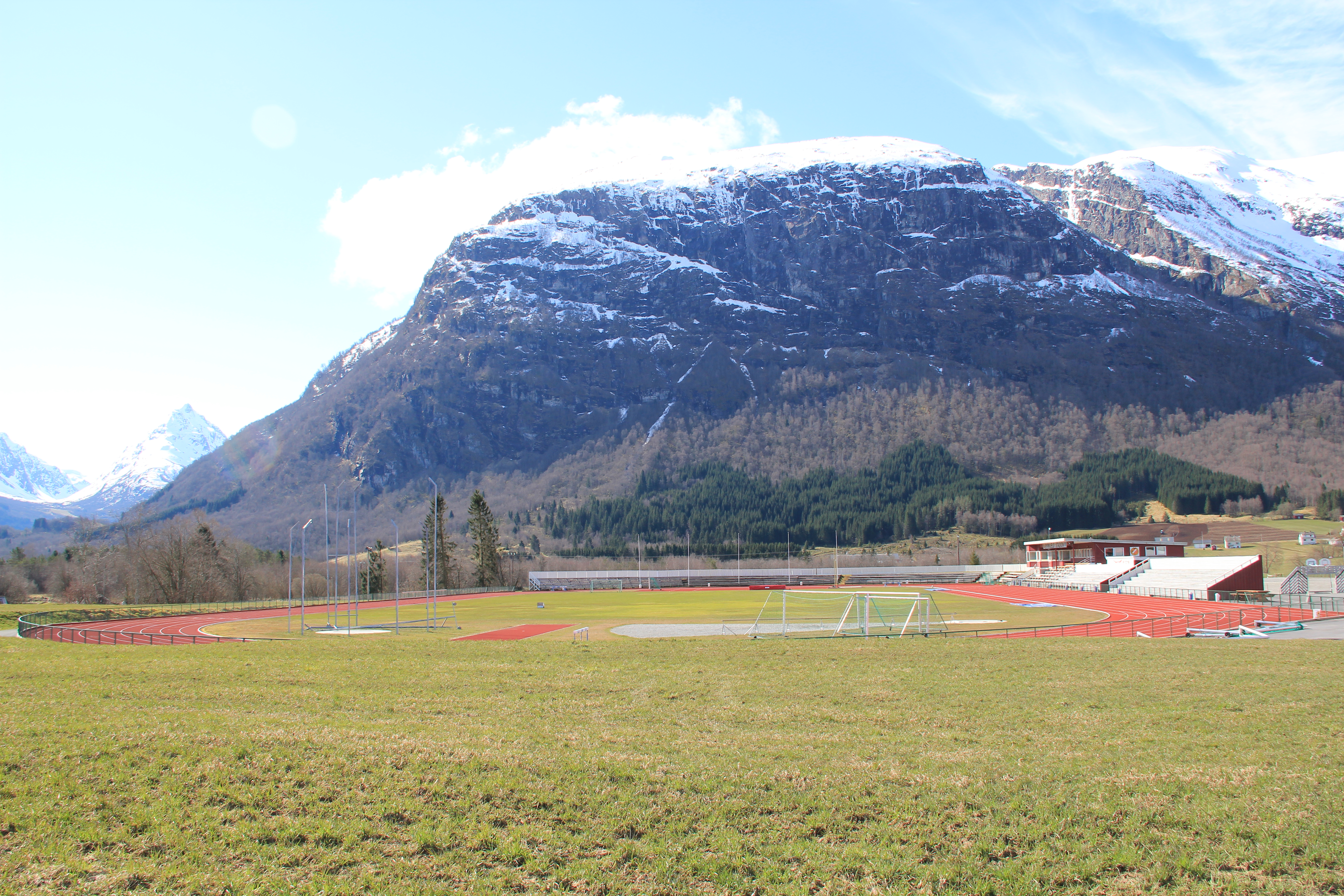 Byrkjelo stadion